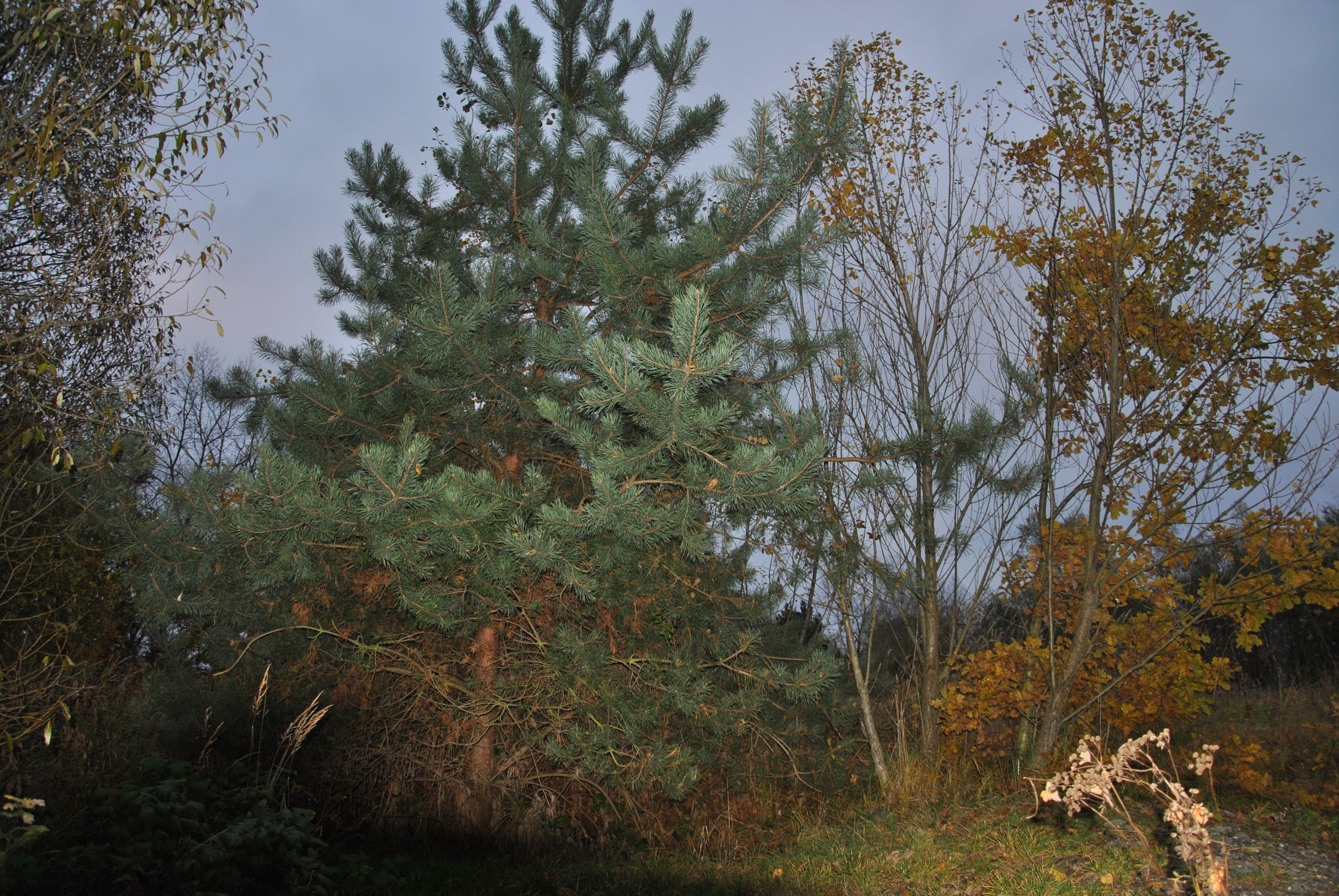 Borovice